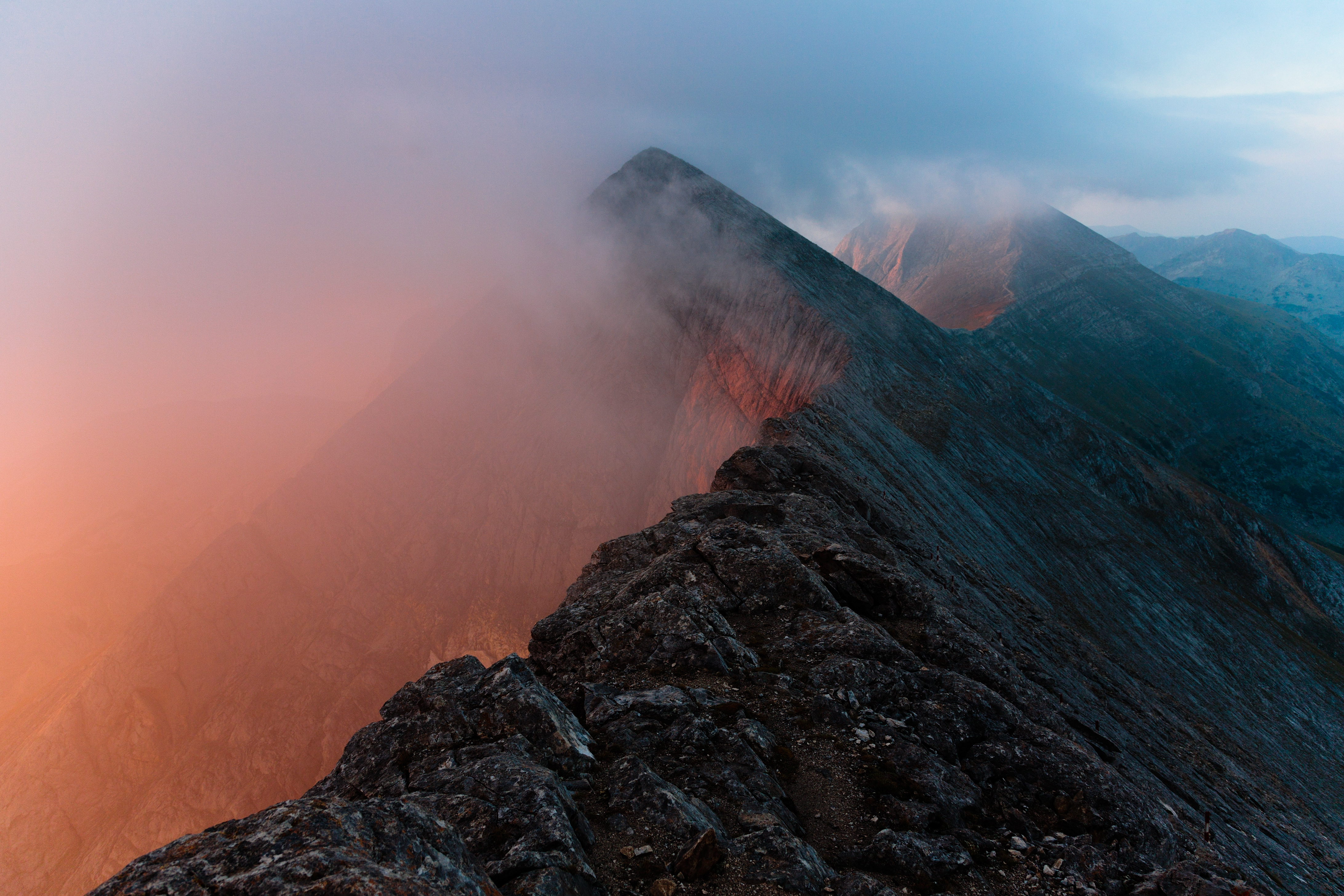 Kutelo and Vihren (back) viewed from Koncheto, Pirin Mountain, Bulgaria in Pirin National Park